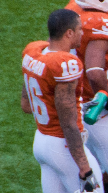 Texas Longhorns safety, Kenny Vaccaro, in 2010.